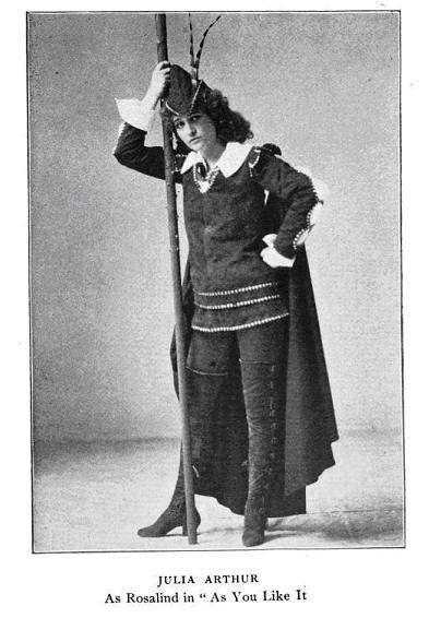 Actress Julia Arthur (ca. 1899)